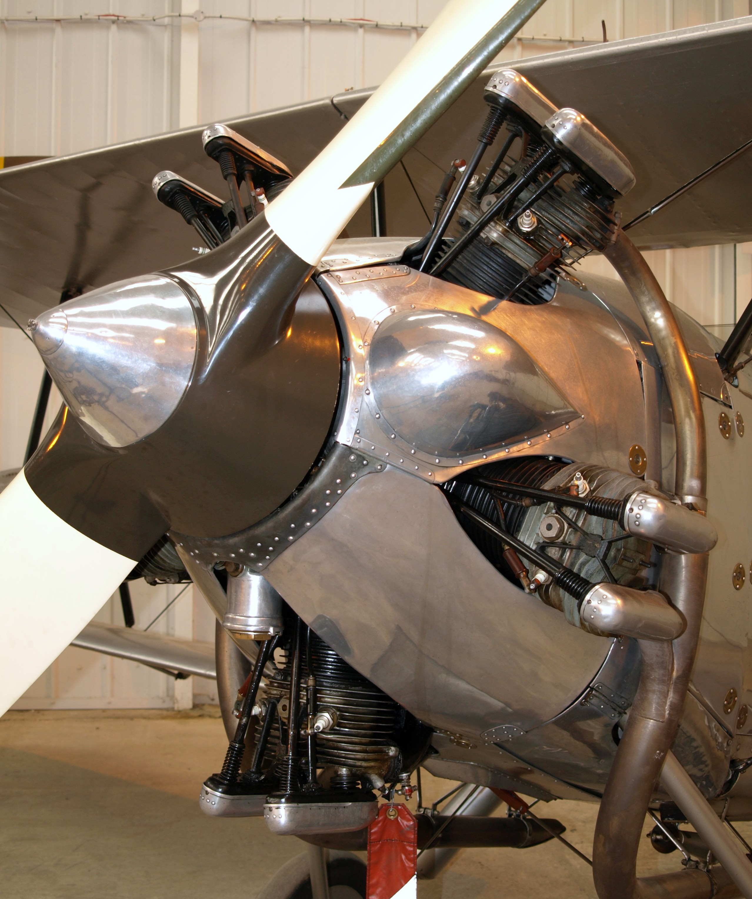 Armstrong Siddeley Mongoose engine installed in the Hawker Tomtit at the Shuttleworth Collection, Bedfordshire, England.